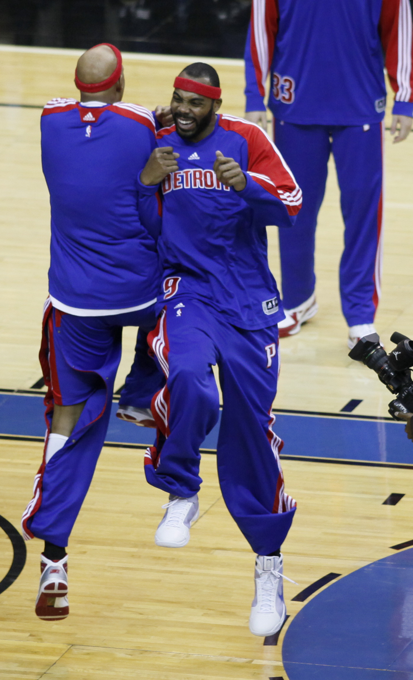 Chris Wilcox playing with the Detroit Pistons.